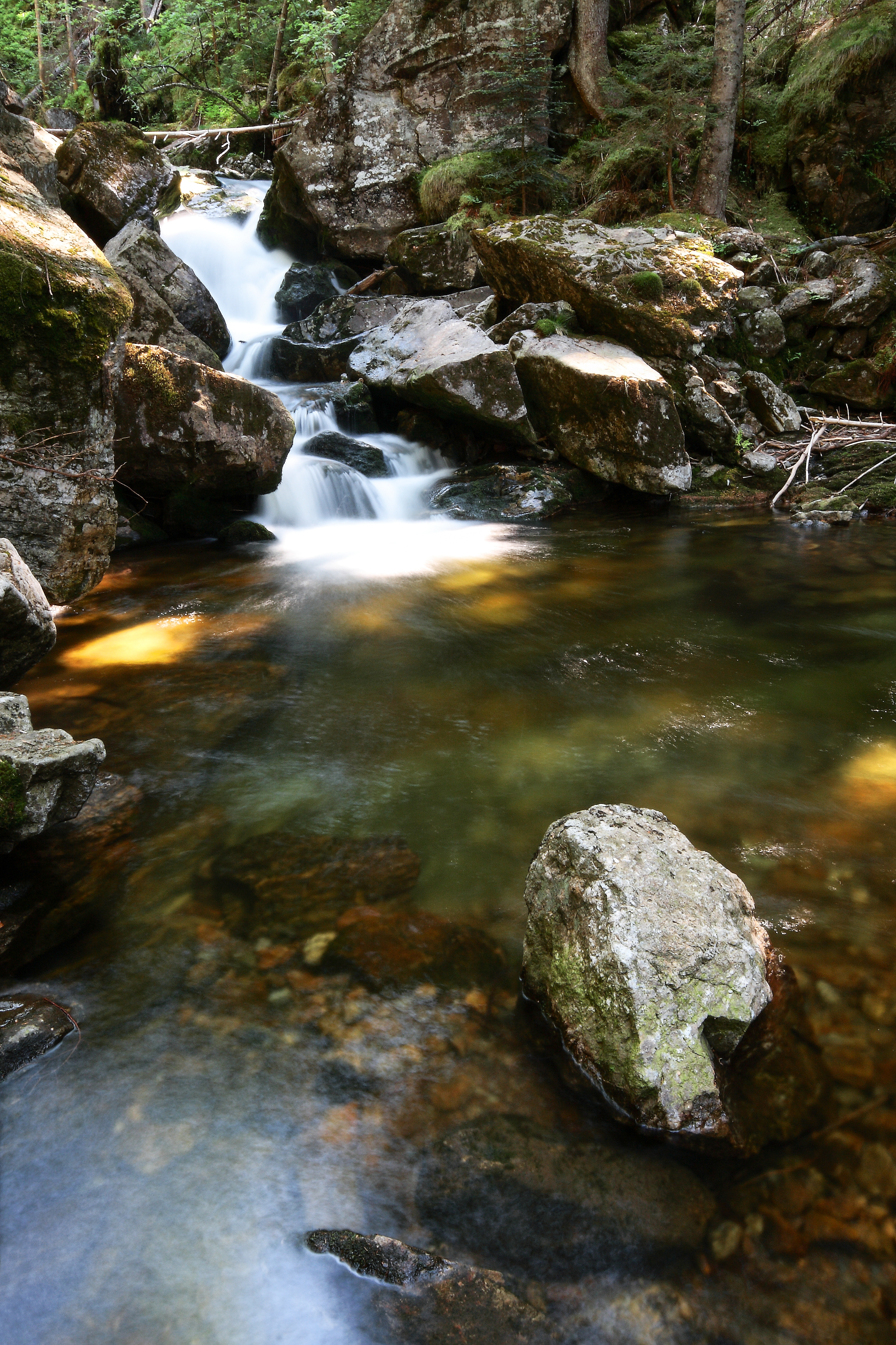 A pond about the main part of the waterfall.